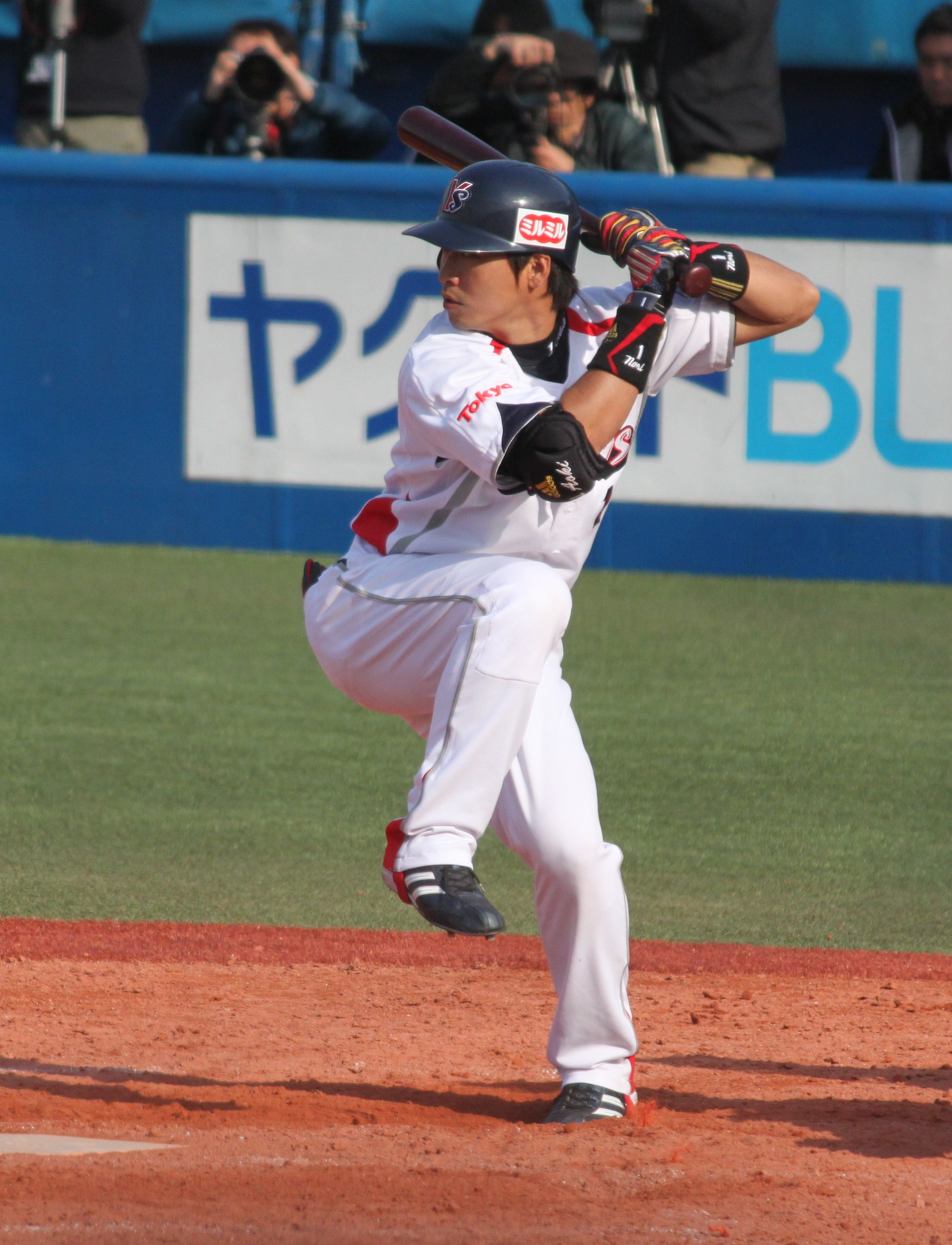 Norichika Aoki, outfielder of the Tokyo Yakult Swallows, at Meiji Jingu Stadium.